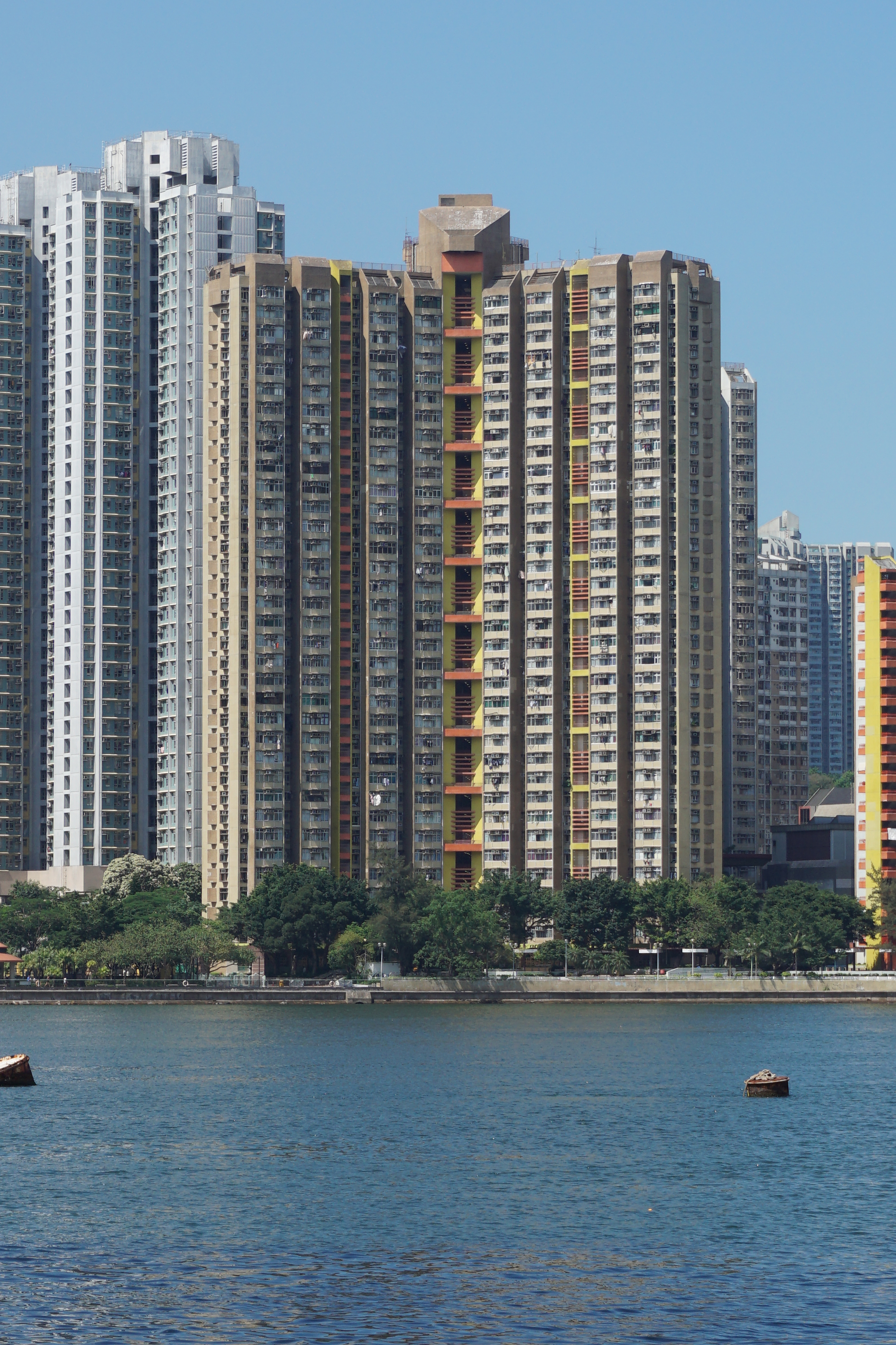 Ching Nga Court in Tsing Yi, Hong Kong.